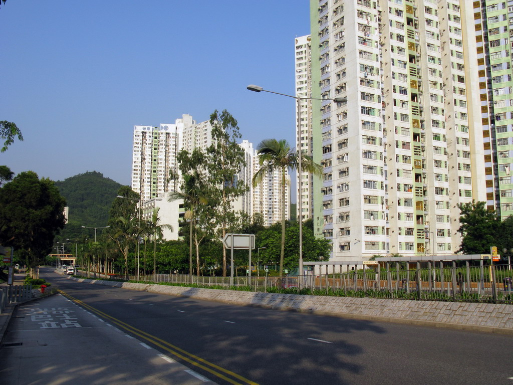 Po Lam Road North near Po Lam Estate